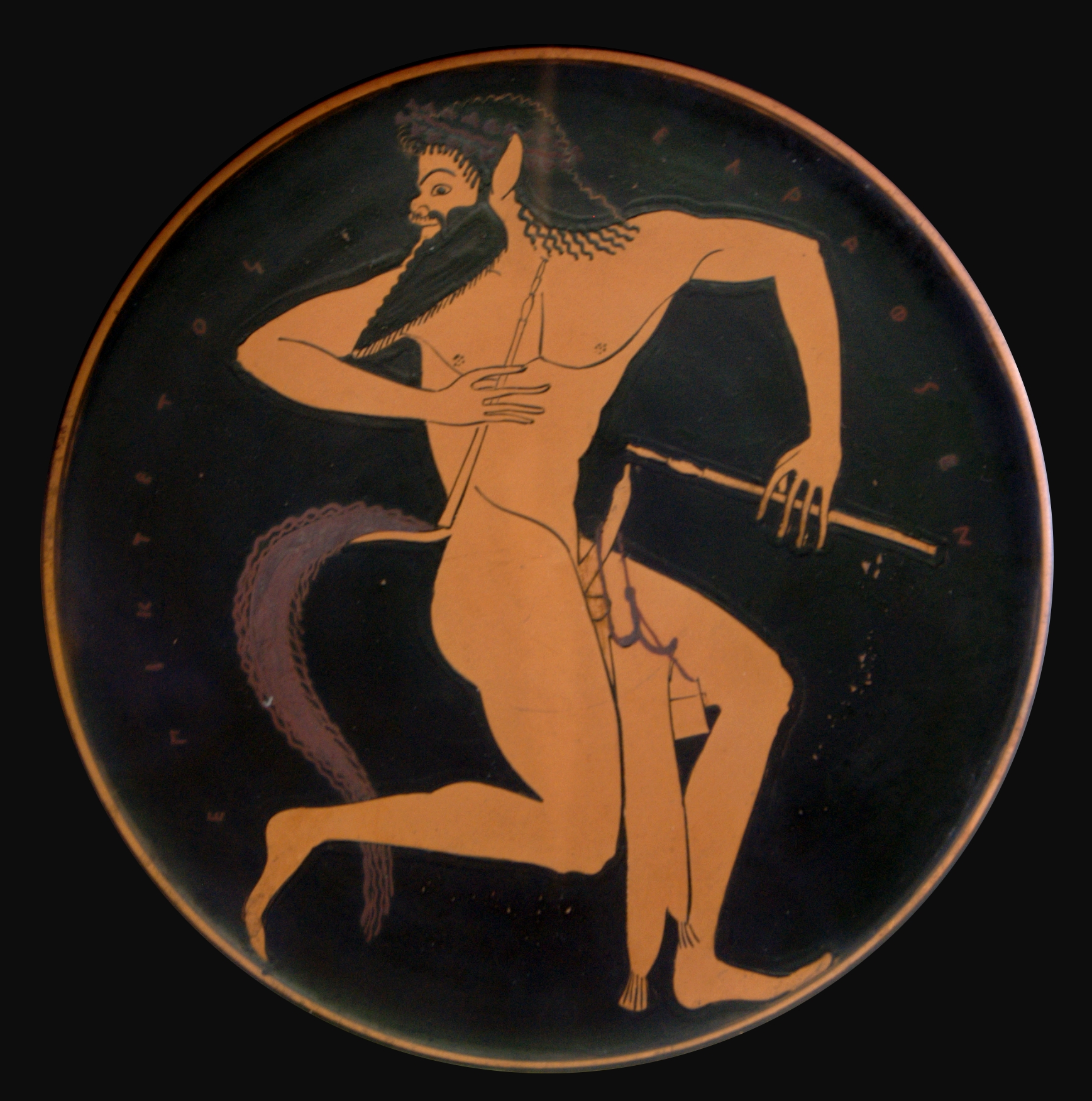 Silenus with pipes and a pipe case hanging on his penis. Tondo of an Attic red-figure plate, 520–500 BC. From Vulci.